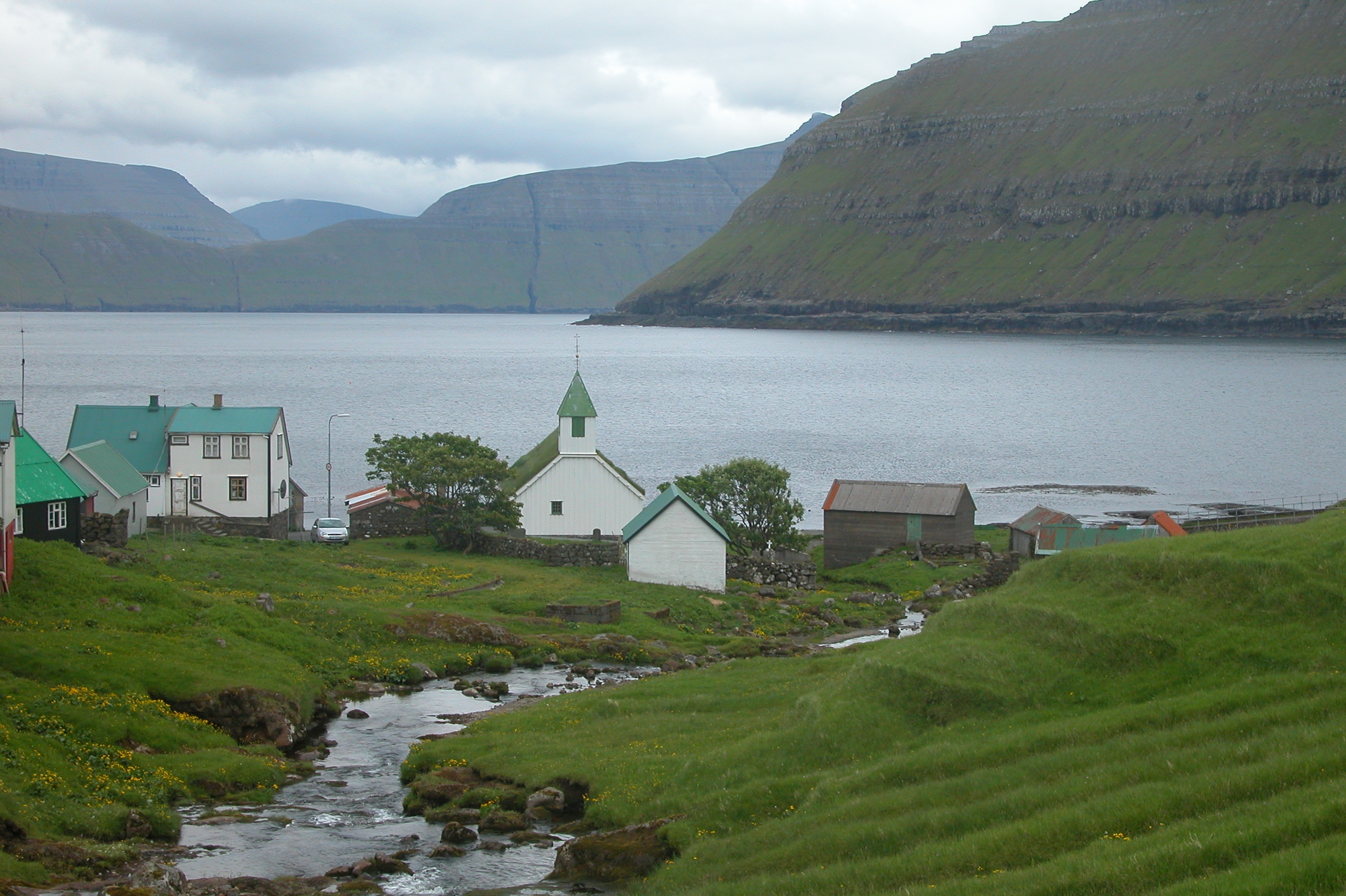 Oyndarfjørður, Eysturoy, Faroe Islands. In the background: Kalsoy, behind that the south tip of Kunoy and far a way a piece of Borðoy